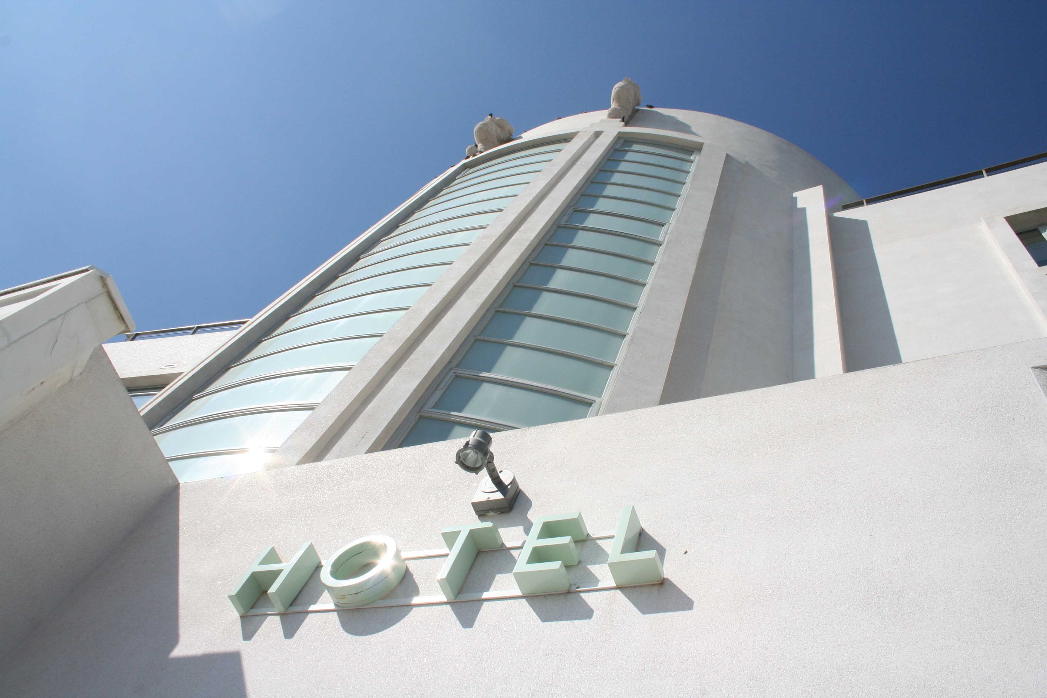 Midland Hotel, Morecambe, Lancashire, England.